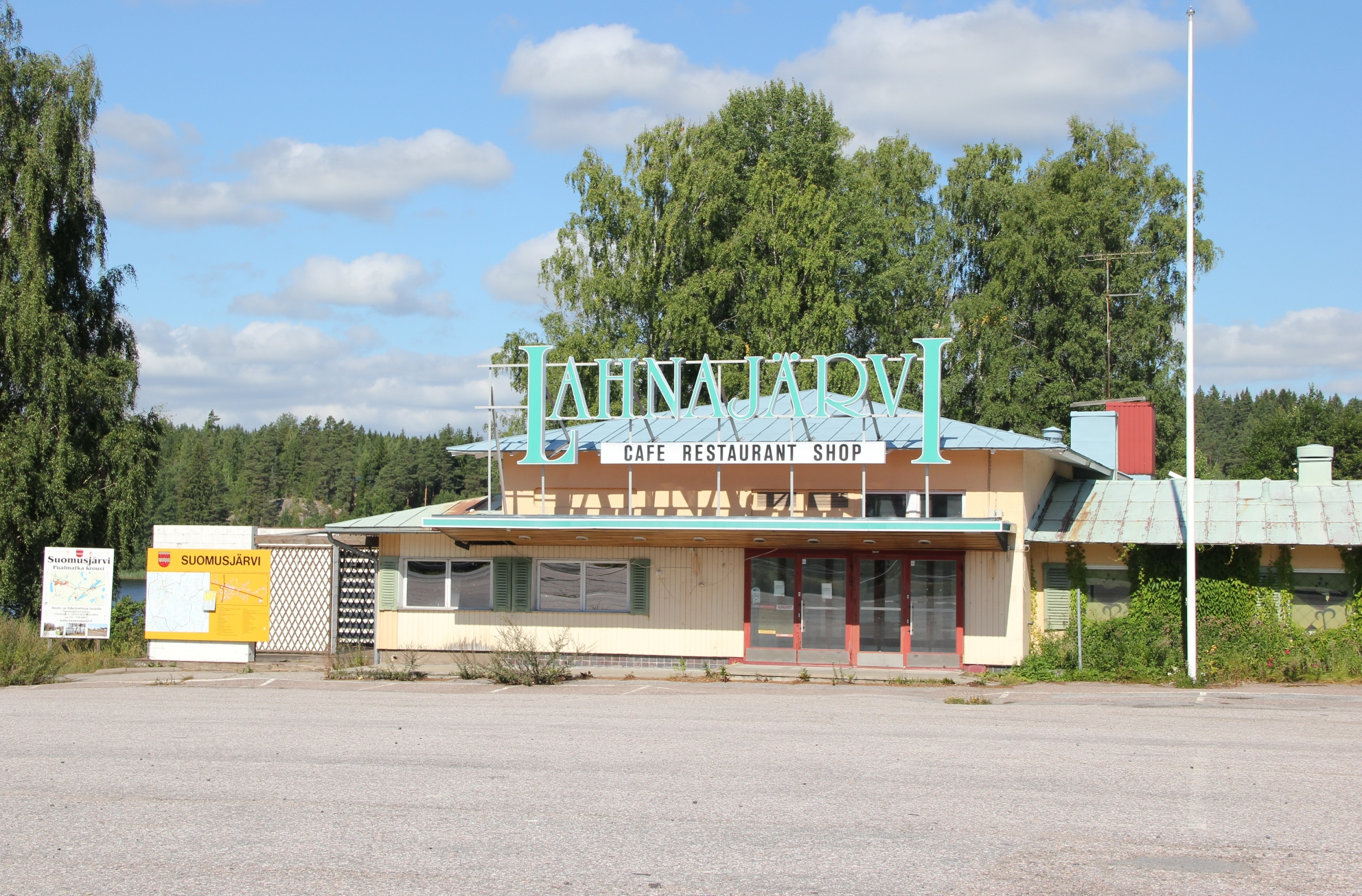 Lahnajärvi resting place in Salo, Finland, August 2013 National Road 110